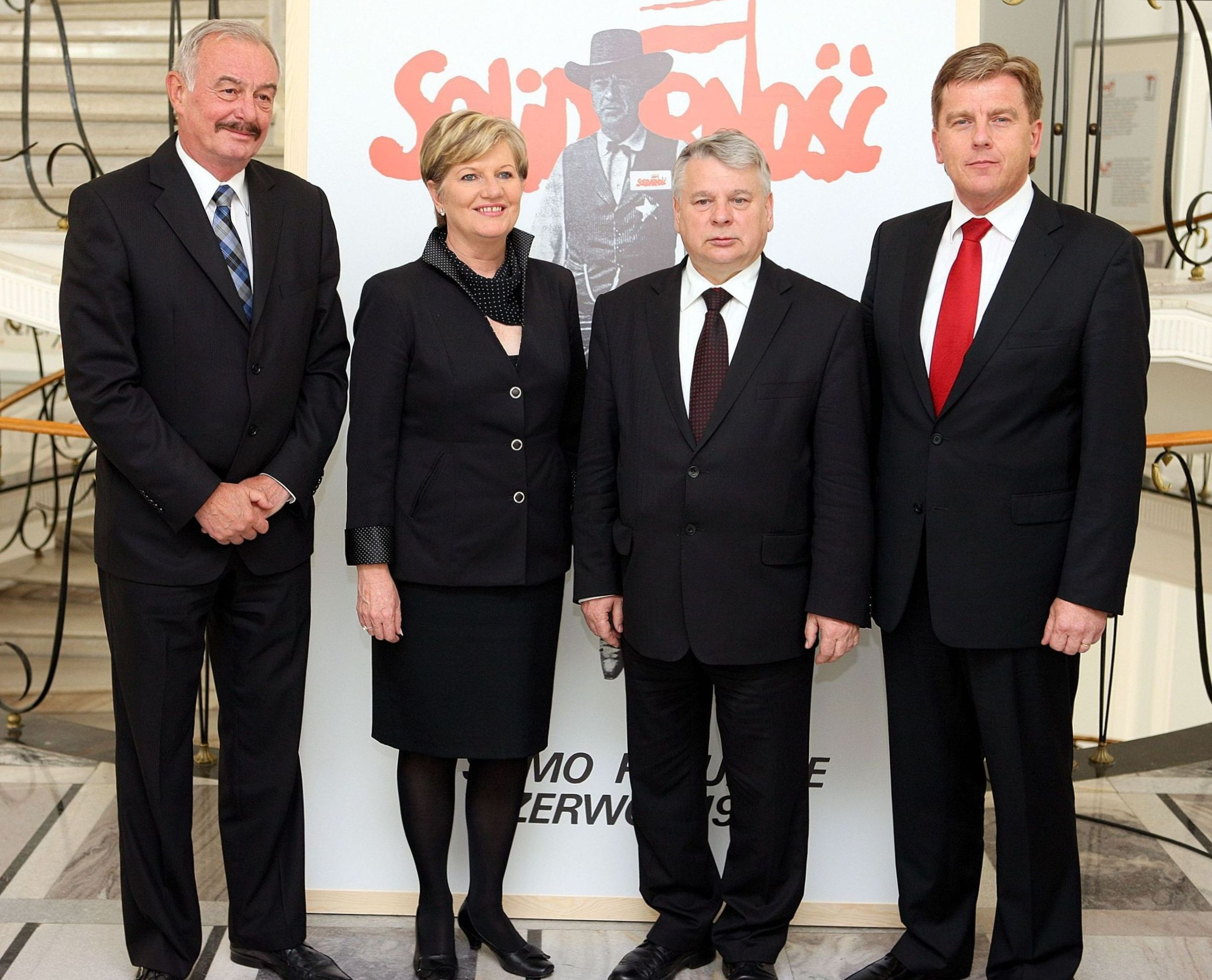 Přemysl Sobotka, Katalin Szili, Bogdan Borusewicz and Miloslav Vlček. Meeting of Presidents of National Parliaments of the Visegrád Group in the Polish Senate